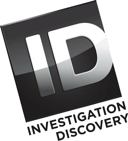 logo id 2012